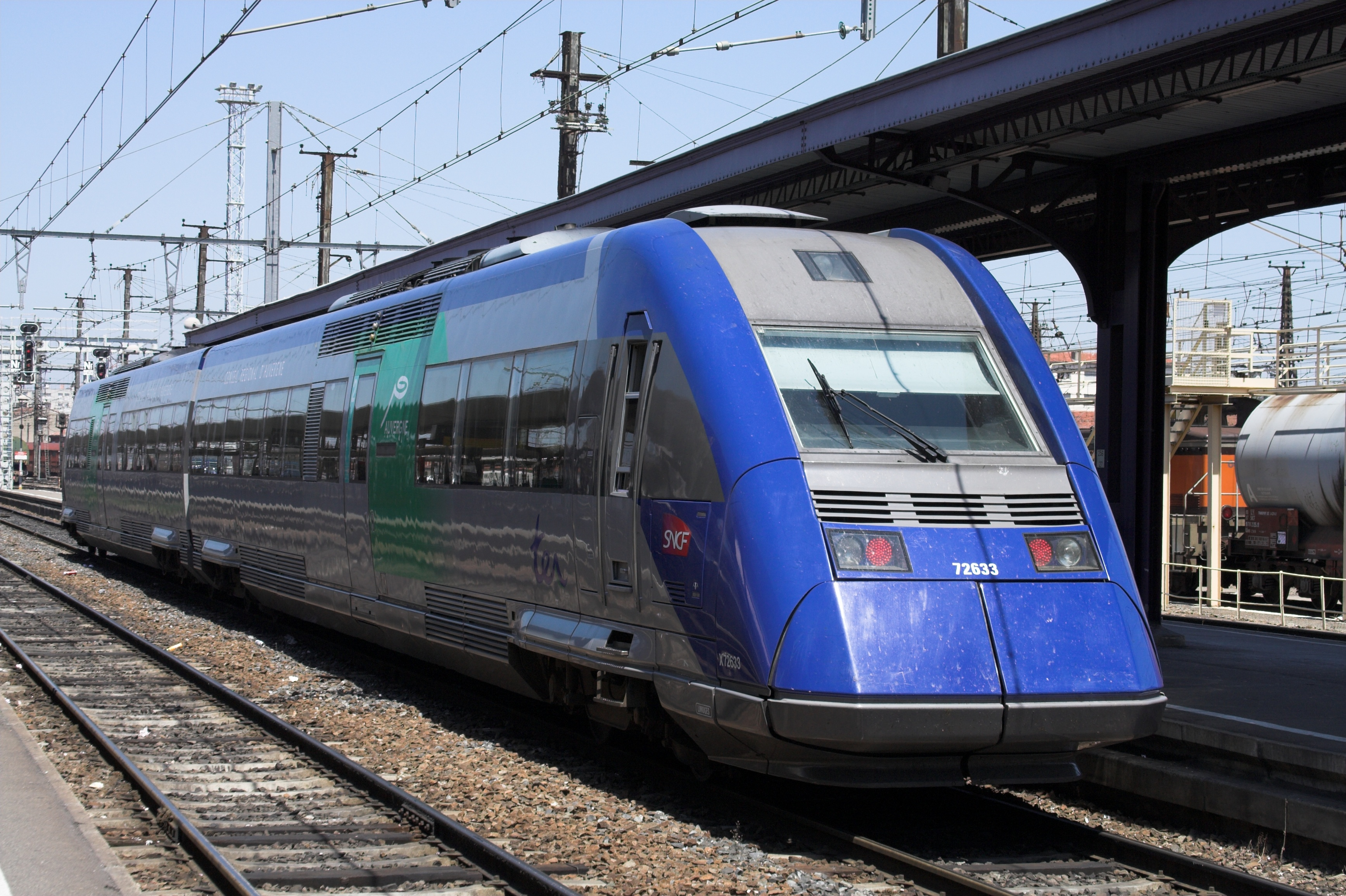 Autorail X72500 at the station Matabiau in Toulouse, France